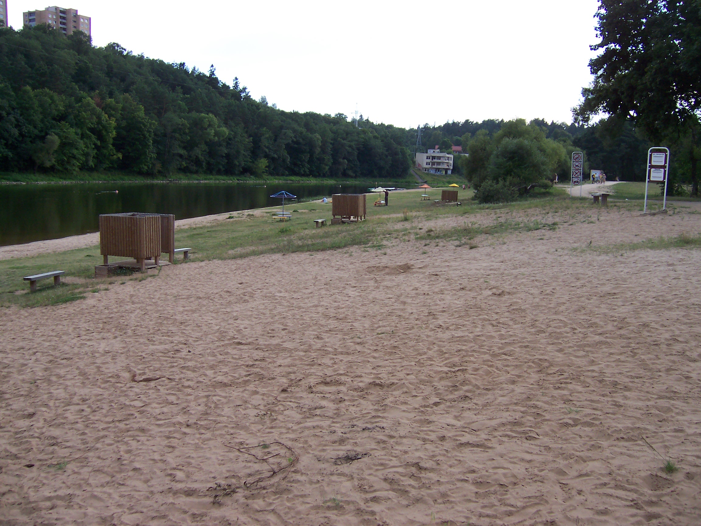 First beach at Valakampiai, Vilnius, Lithuania.